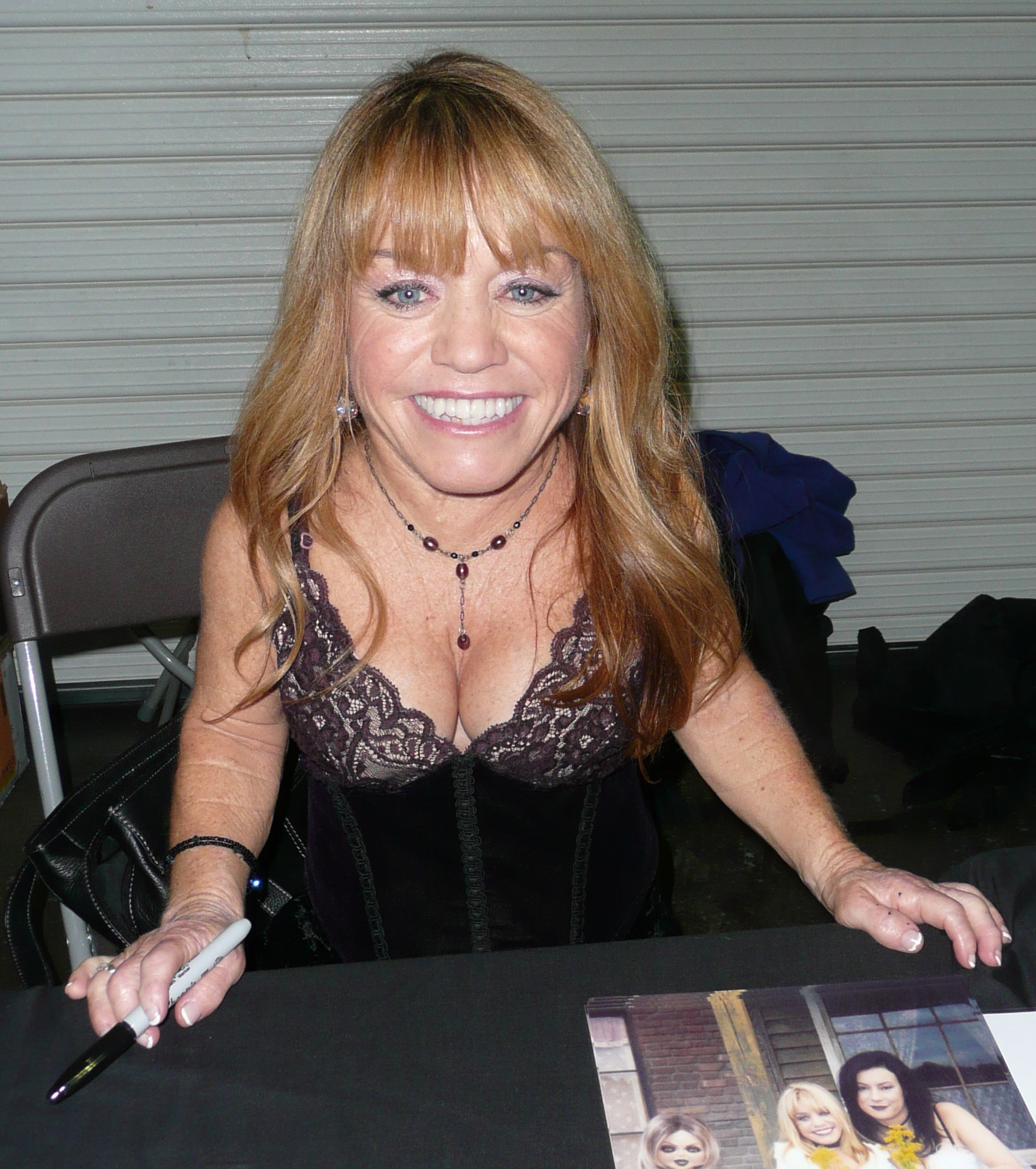 Actress Debbie Lee Carrington at the Entertainment Media Show in London, September 2011